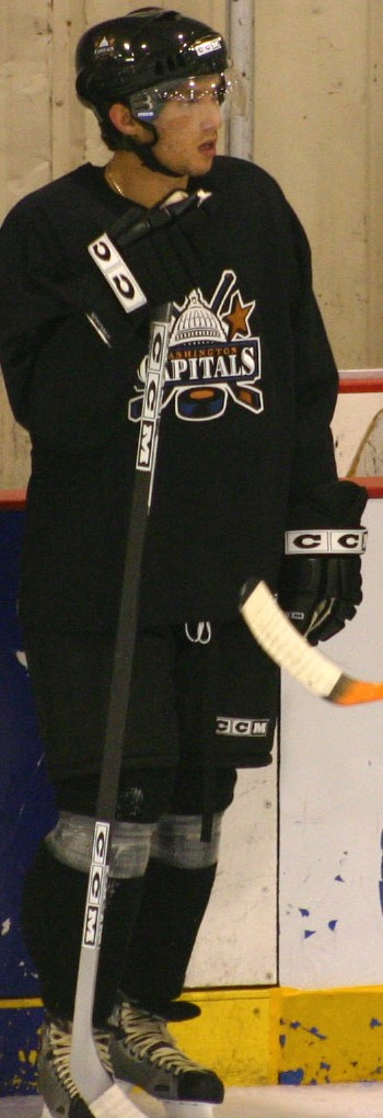 Alexander Ovechkin Washington Capitals 2005 Training Camp252_5255